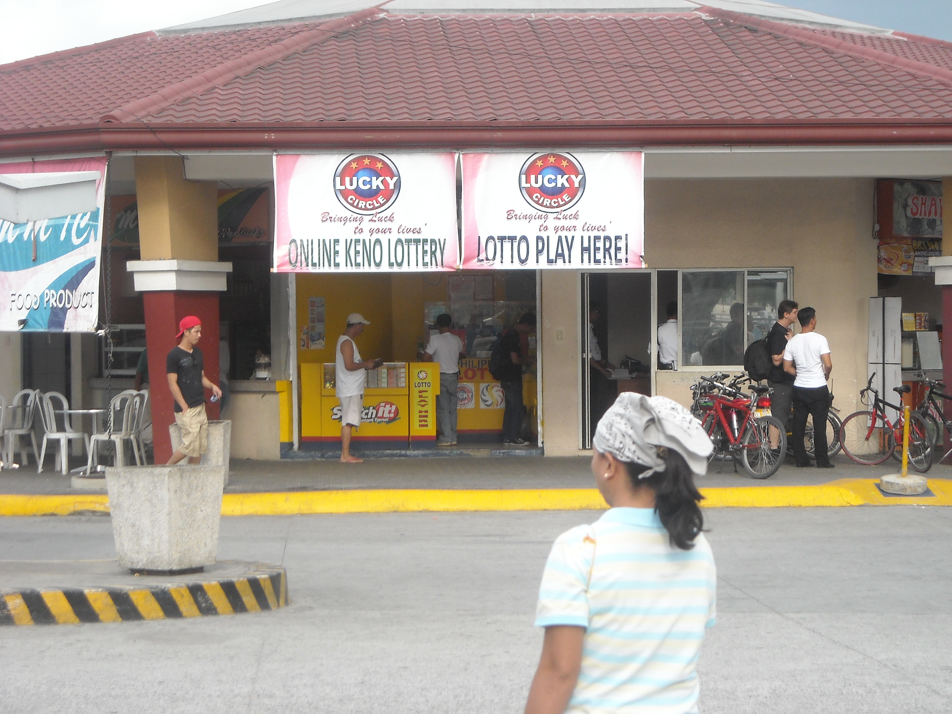 Picture of a lottery outlet in Angeles City.